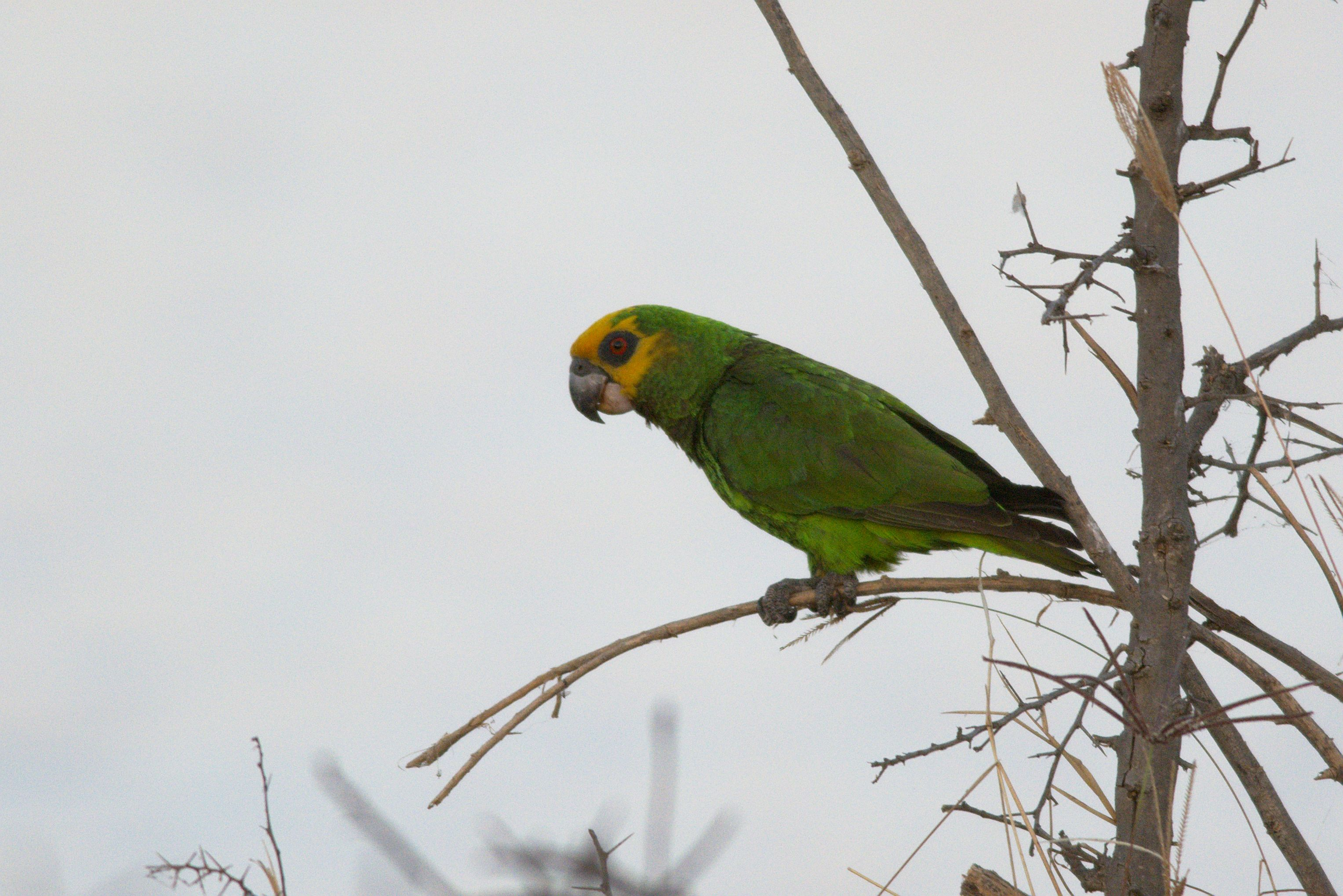 An adult Yellow-headed Parrot near Bishangari Lodge, Ethiopia.